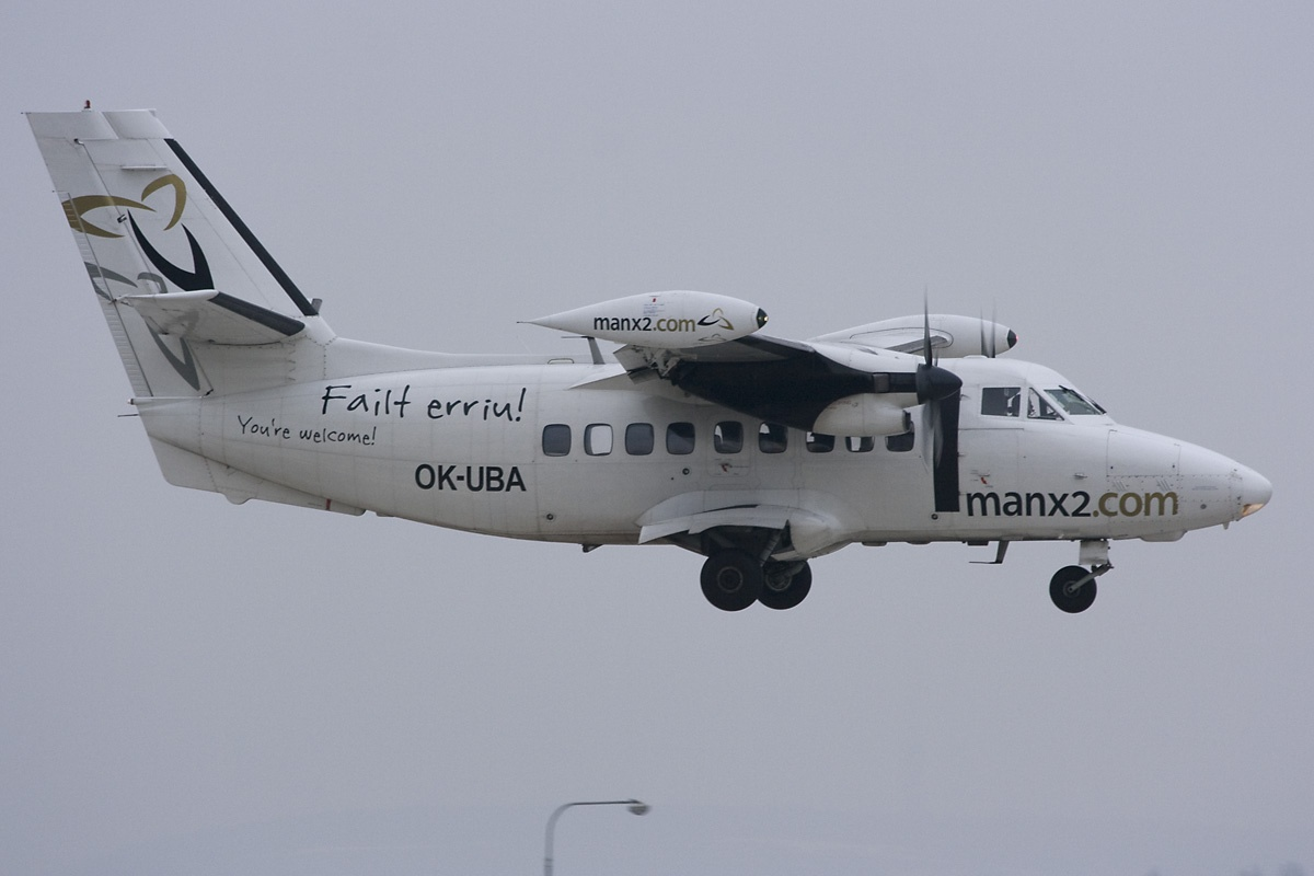 L-410 Van Air Europe